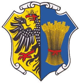 Coat of arms of Heuchelheim